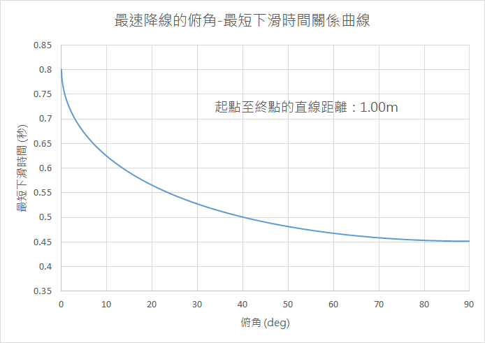 The time-angle relation in the brachistochrone problem